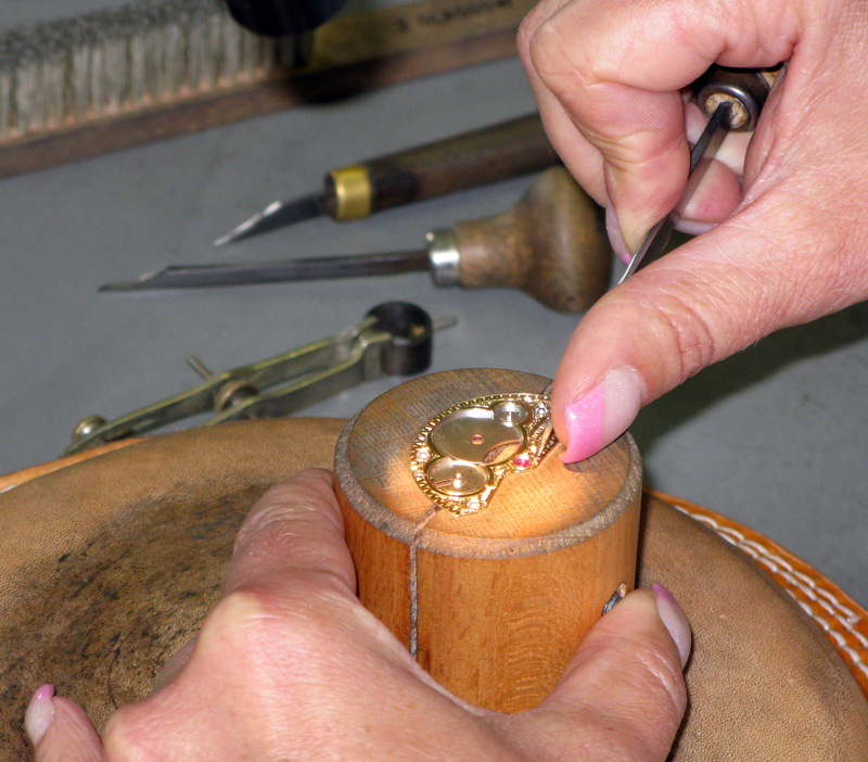 Masterpieces for the upper class: Louis George watch movements are decorated with hand-crafted engravings produced by means of a microscope.